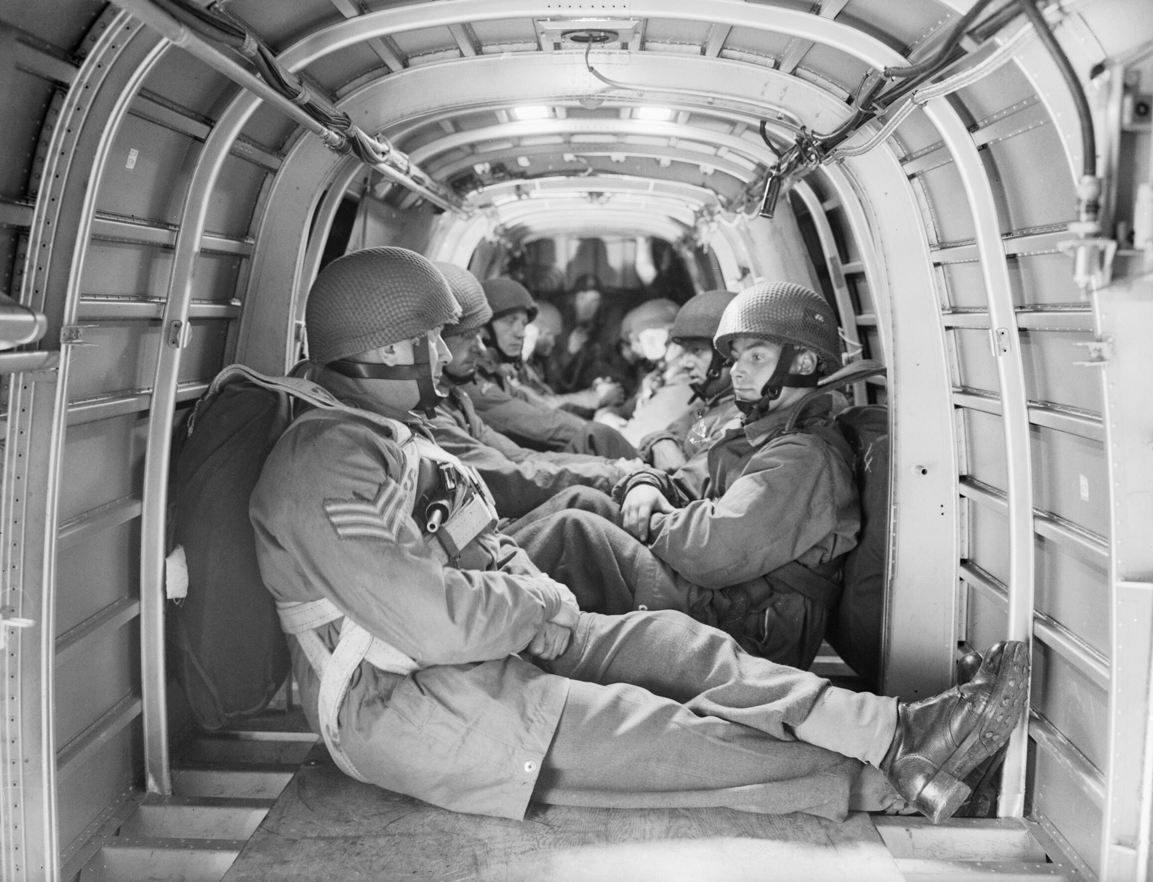 Paratroopers inside the fuselage of a Whitley aircraft at RAF Ringway, August 1942. Paratroopers inside the fuselage of a Whitley aircraft.